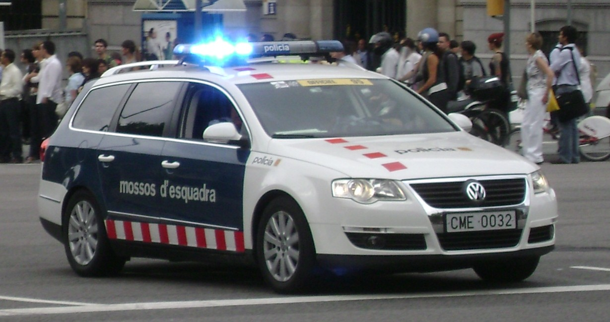 Mossos d'Esquadra traffic unit patrol vehicle.